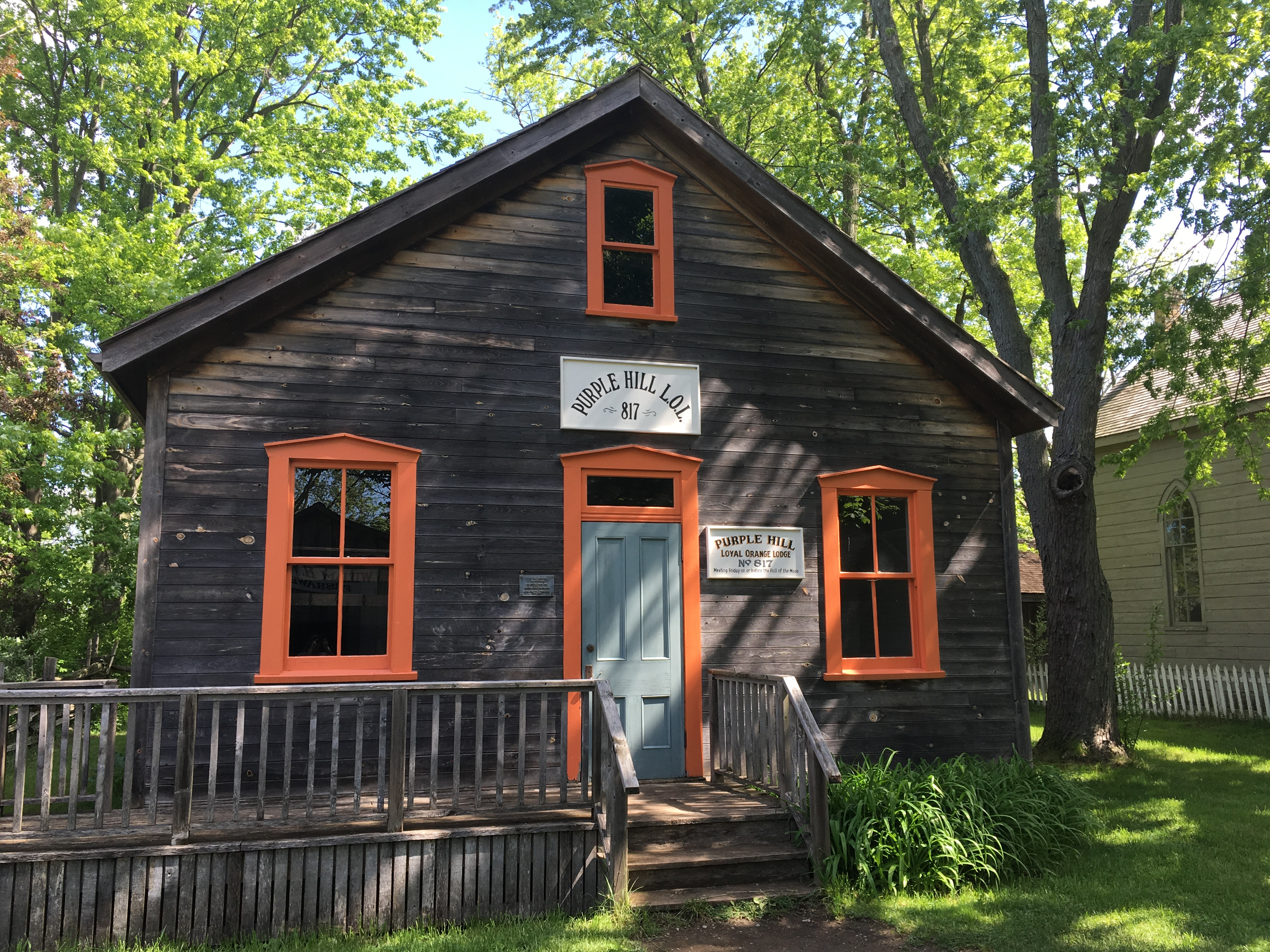 Loyal Orange Lodge building at Fanshawe Pioneer Village, London, Ontario